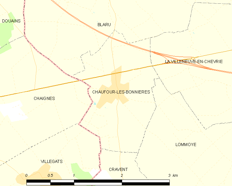 Map of French municipality Chaufour-lès-Bonnières